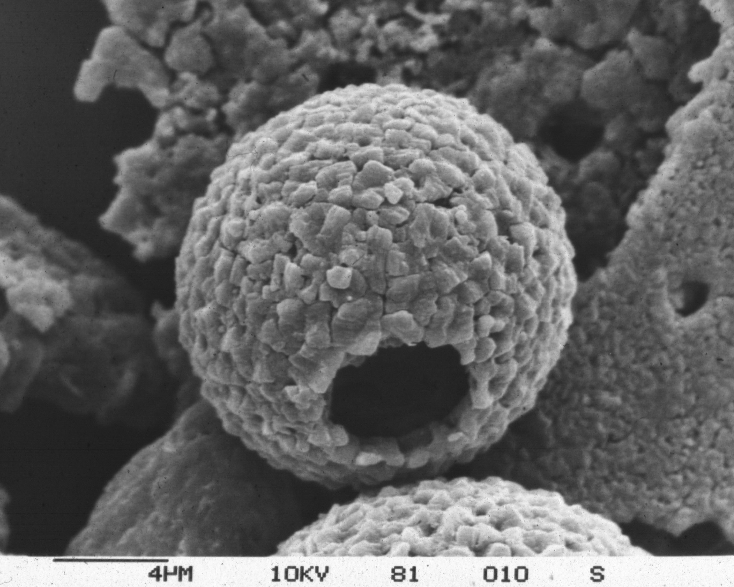 Thoracosphaera heimi